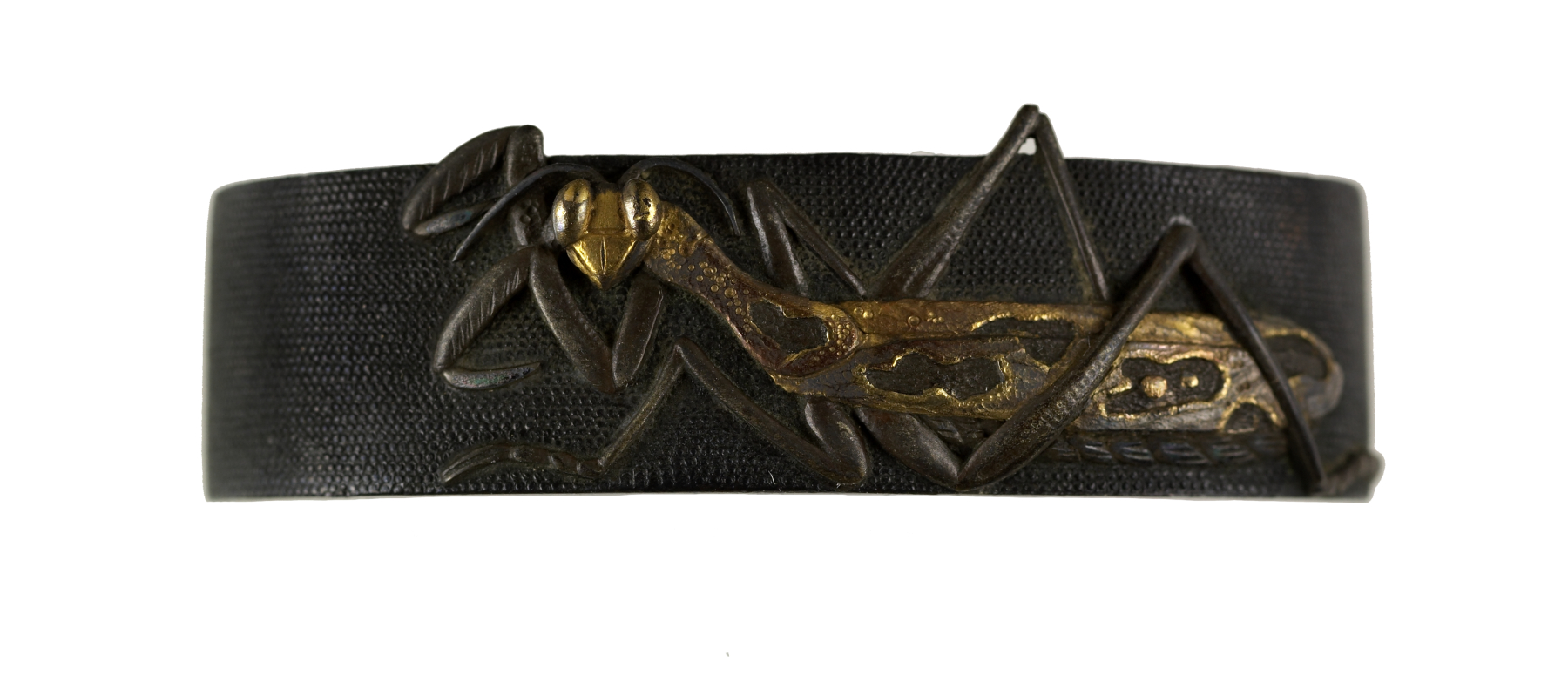 A praying mantis is shown in various metal alloys. Part of the front claws and back legs extend above the top edge of the fuchi. This is part of a set with Walters 51.955.